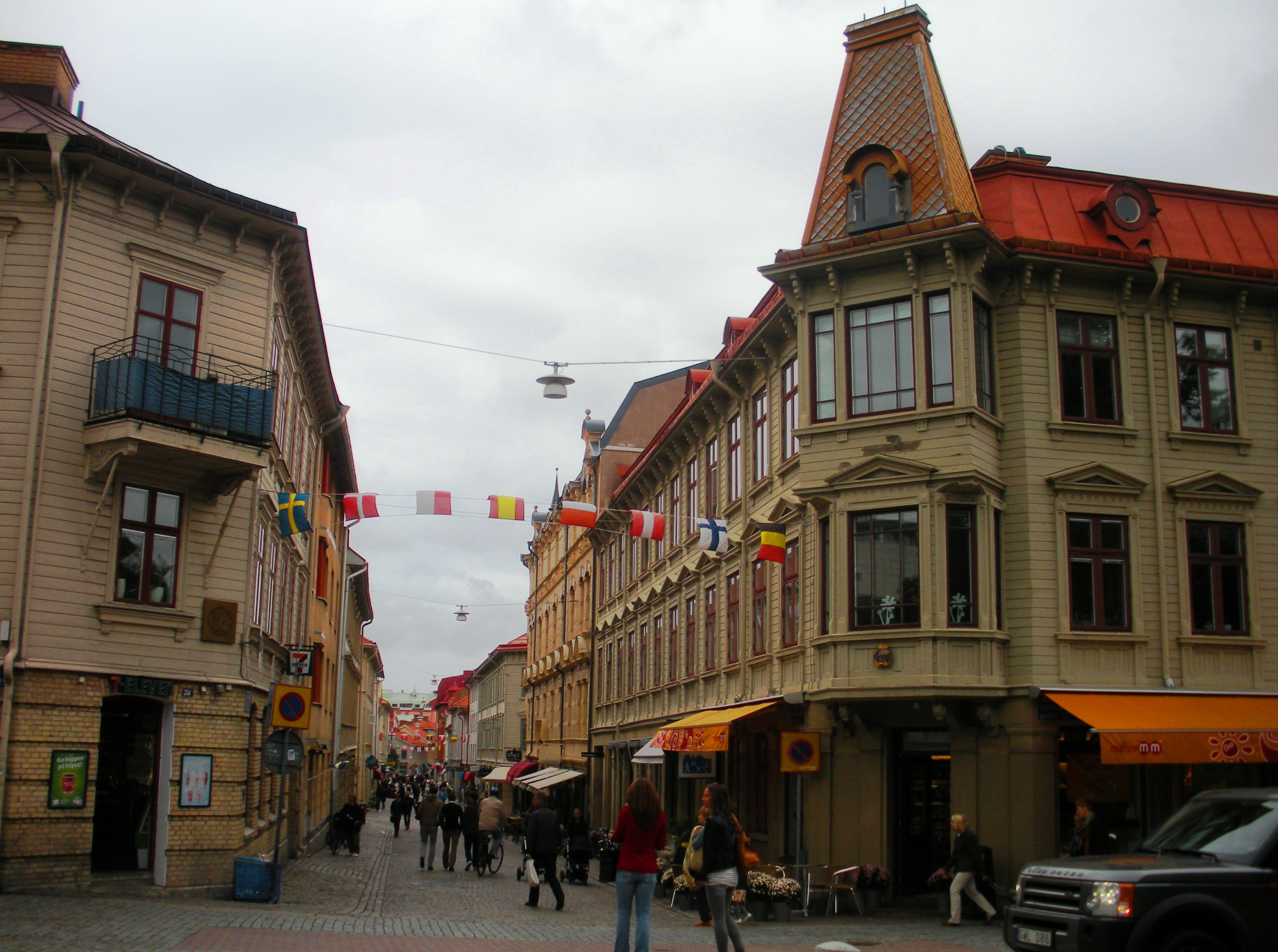 Haga Nygata - a street in Gothenburg